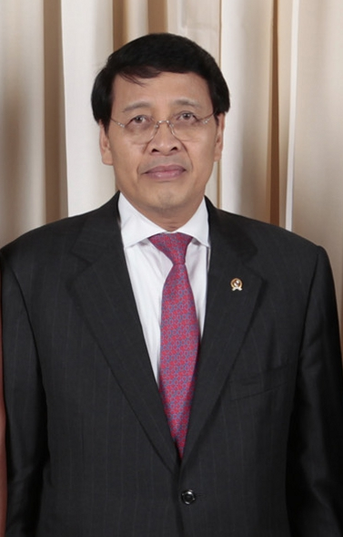 Hassan Wirajuda, foreign minister of Indonesia, pose with President Barack Obama and First Lady Michelle Obama during a reception at the Metropolitan Museum in New York.